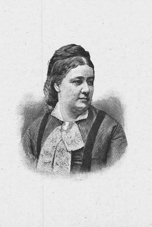 Swedish teacher and headmistress Thorborg Rappe (1832-1902)